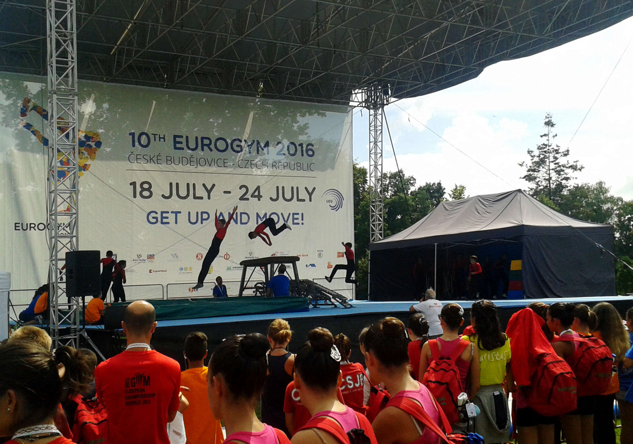 Performance of the Portuguese team of Colégio Militar - Classe Especial in the city of České Budějovice, South Bohemian Region, Czech Republic, during "Eurogym 2016".